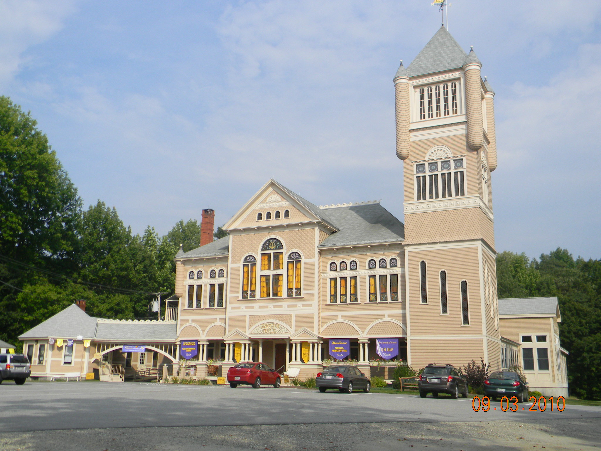 Cumston Hall, Monmouth ME Home of the Theater at Monmouth